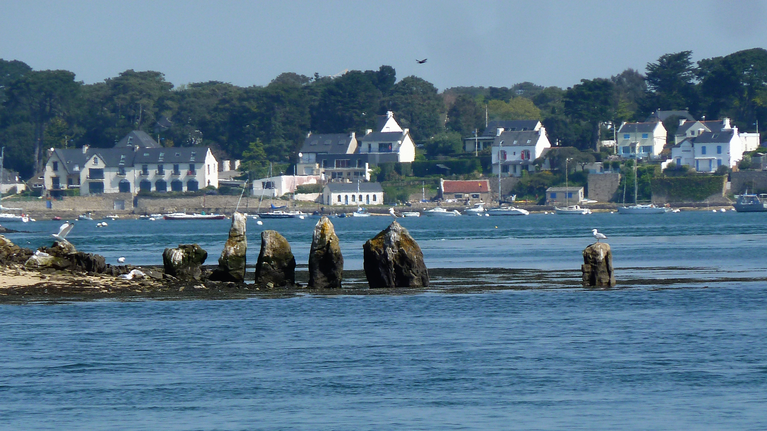 Northwest end of the menhirs of the cromlech of Er Lannic Island in the Gulf of Morbihan, Brittany (France). In the background we can see houses of the village of Larmor-Baden.